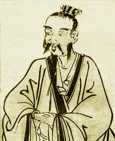 Li Shizhen portrait